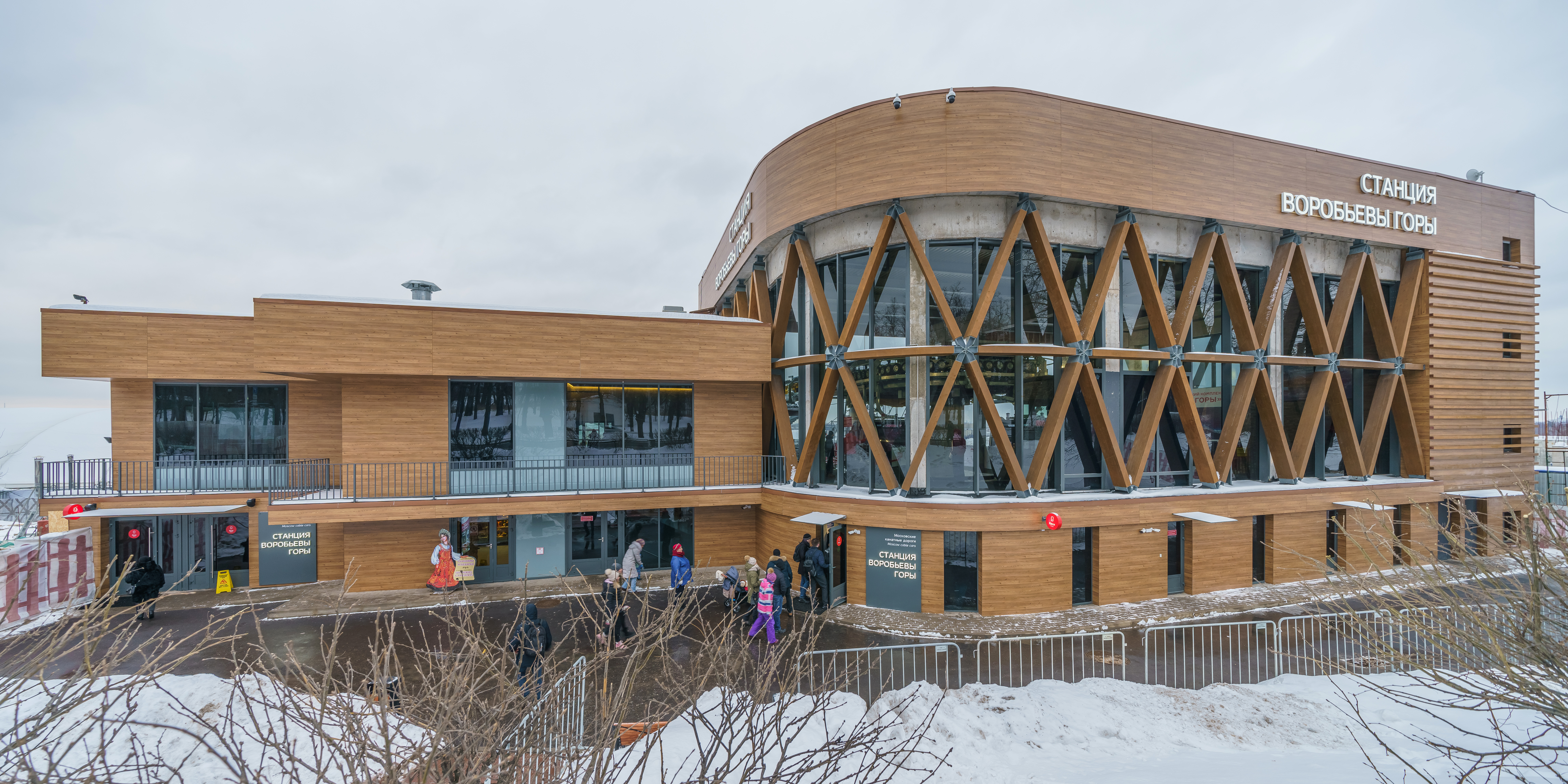 Sparrow Hills Cableway in Moscow, Russia: building of Sparrow Hills station